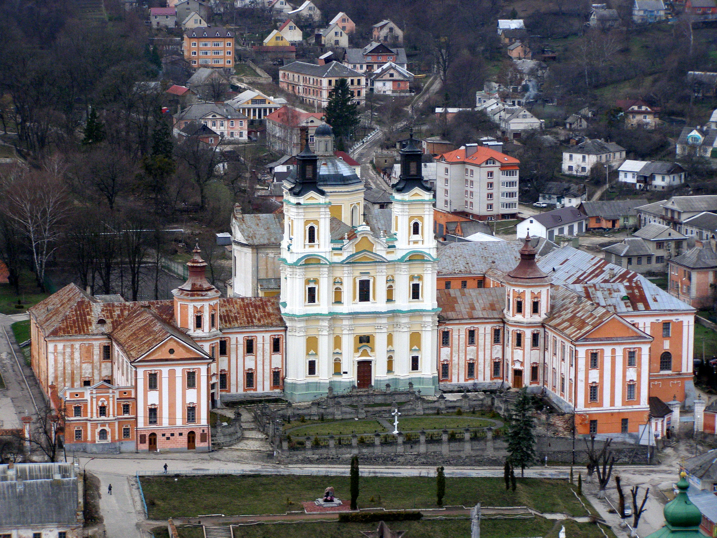 Photos of the building Kremenets Gymnasium (Volyn Lyceum)